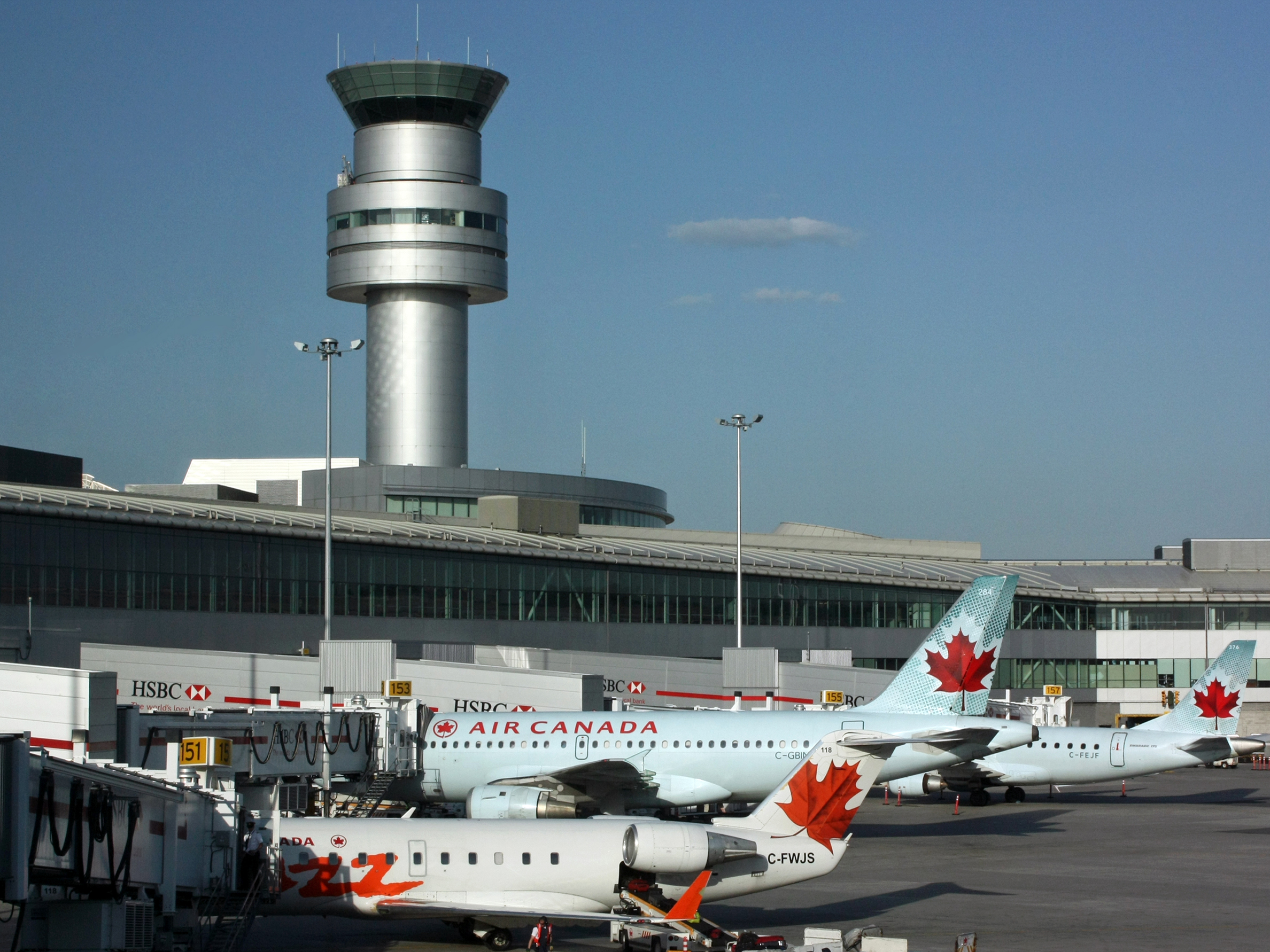 Terminal 1 of Toronto Airport with Air Canada aircraft and the tower